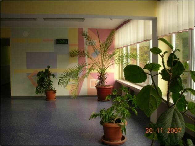 Recreation in School of the Future